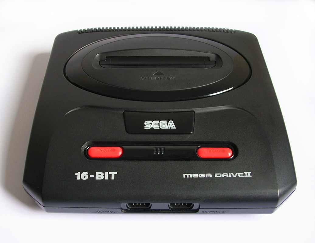 Sega Mega Drive II video game console (1994)